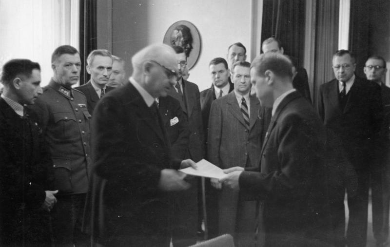 The Katyn Massacre, 1940 Professor Ferenc Orsós presenting a protocol of the International Medical Commision's work to Dr Leonardo Conti, German State Health Leader, during the meeting in Conti's office in Berlin. From left to right: 1st - Dr Vincenzo Palmieri, Professor of Forensic Medicine and Criminology at the University of Naples, Italy; 2nd - Dr Arno Saxén, Professor of Pathological Anatomy at the University of Helsinki, Finland; 4th - Dr Eduard Miloslavić, Professor of Forensic Medicine and Criminology at the University of Zagreb, Croatia; 5th - Dr Ferenc Orsós, Professor of Forensic Medicine and Criminology at the University of Budapest, Hungary 6th - Dr František Hájek, Professor of Forensic Medicine and Criminology at the University of Prague, Protectorate of Bohemia and Moravia (Czech Republic) 7th - Dr Marko Markov, Reader of Forensic Medicine and Criminology at the University of Sofia, Bulgaria; 9th - Dr Alexandru Birkle, Reader at the Forensic Medicine and Criminology Institute in Bucarest, Romania; 12th - Dr Leonardo Conti, German State Health Leader (Reichsgesundheitsführer), a host of the meeting; 13th - Dr Helge Tramsen, Prosecutor at the Institute of Forensic Medicine in Copenhagen, Denmark (behind Dr Conti)